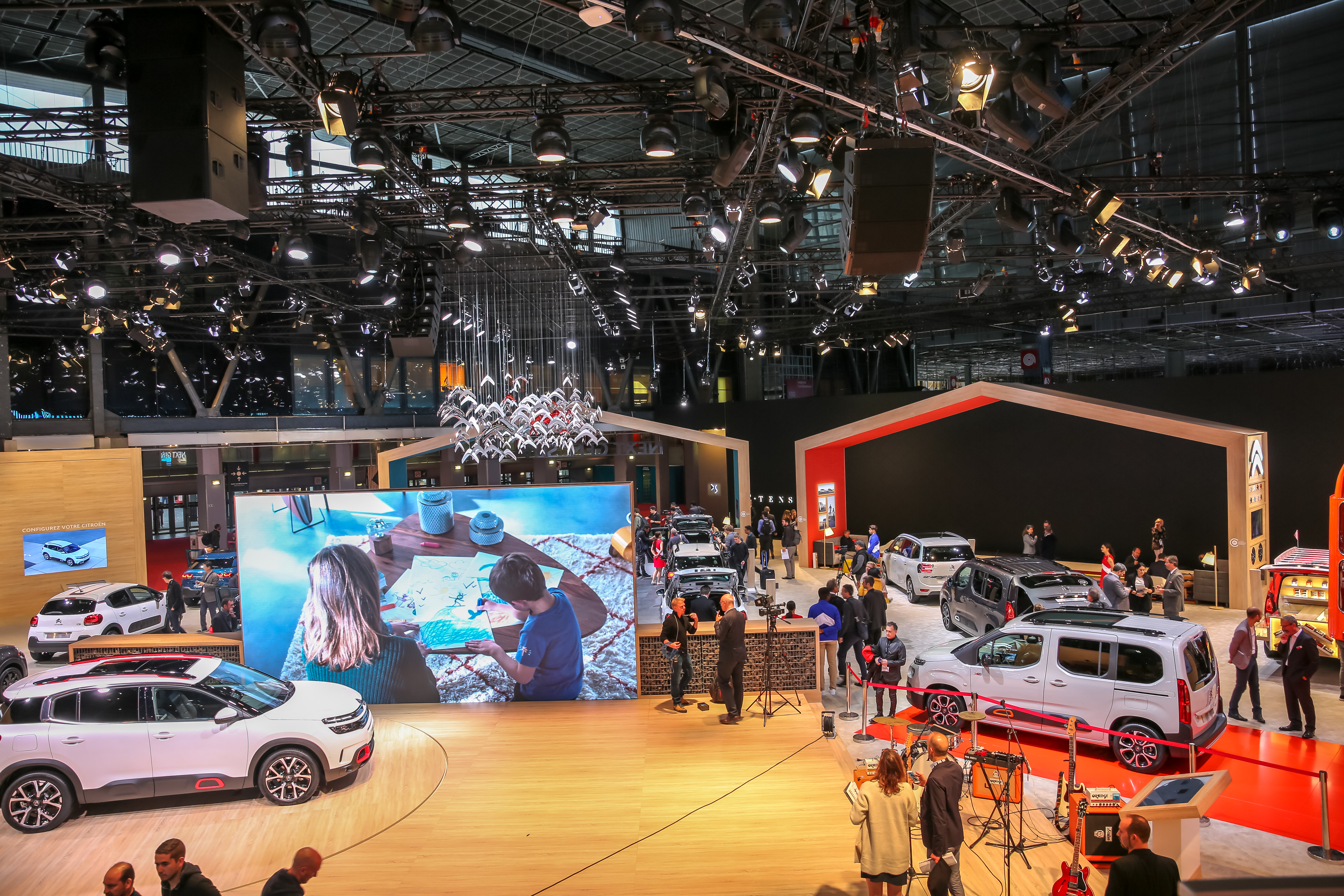 Mondial Paris Motor Show 2018